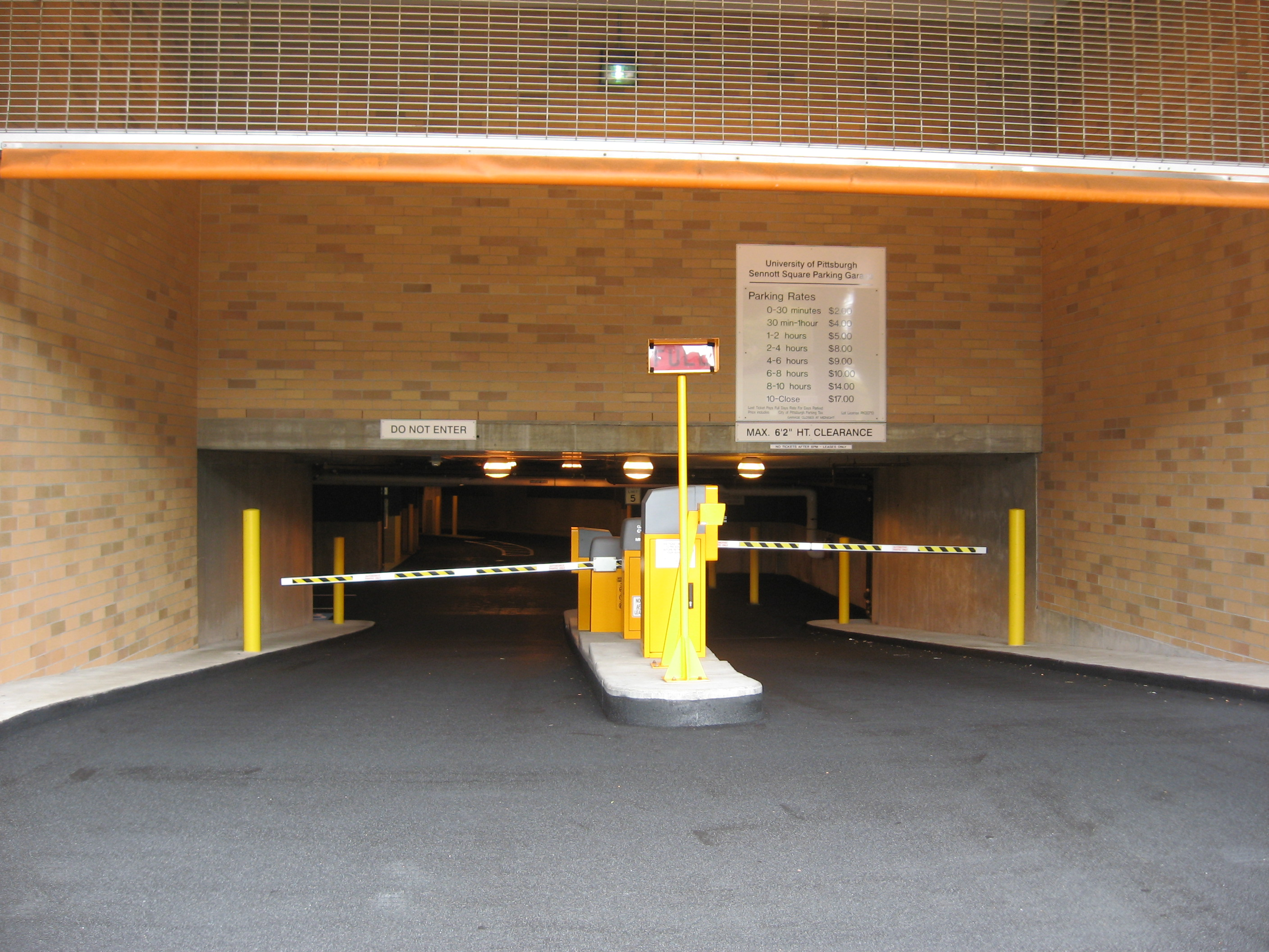 The undergound parking at Sennott Square at University of Pittsburgh